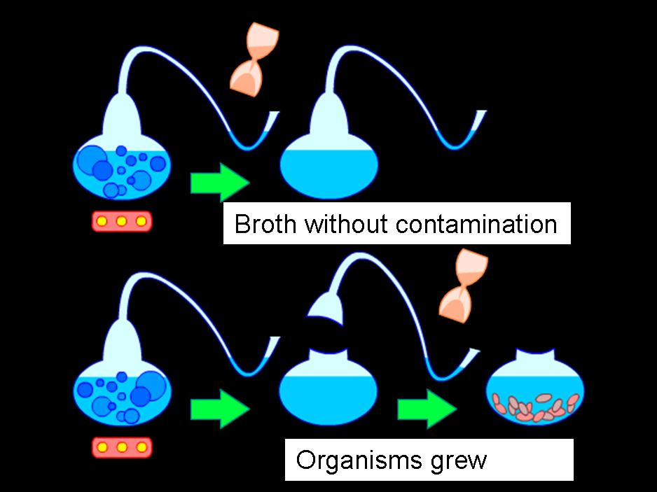 Illustration of swan-necked flask experiment used by Louis Pasteur to test the hypothesis of spontaneous generation.